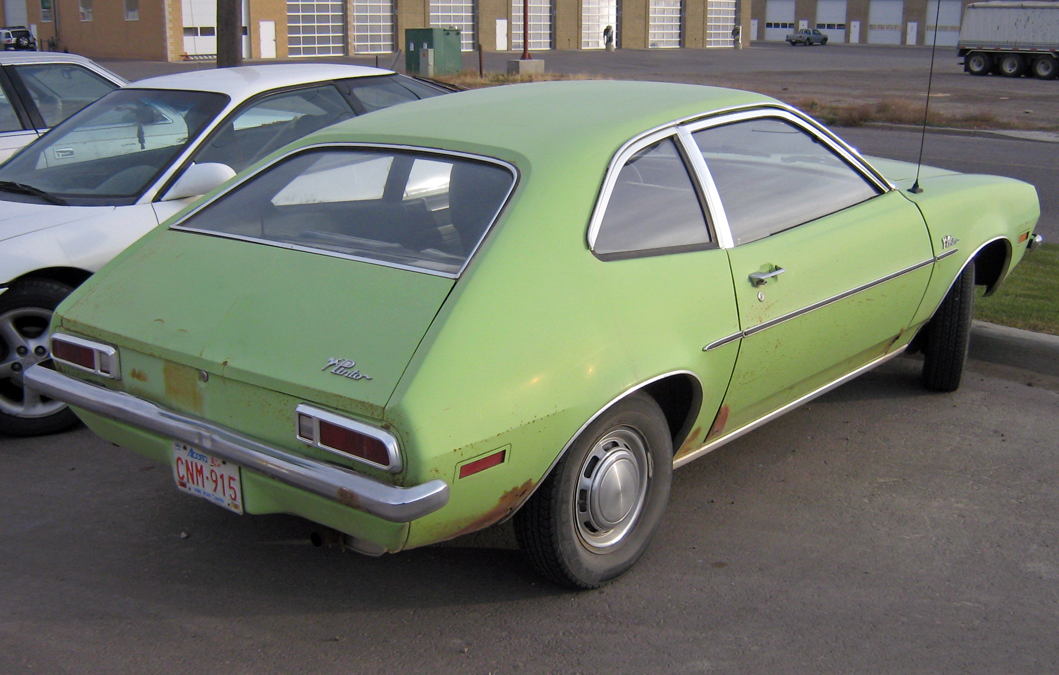 Quite an early Ford Pinto in a oh so 70s lime green. Excellent. With the trunk lid this is the sedan not the Runabout.